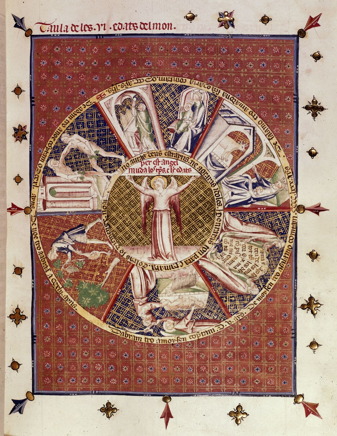 Detail of a circular diagram of the Six Ages of the World, illuminated manuscript of Spanish origin. British Library.